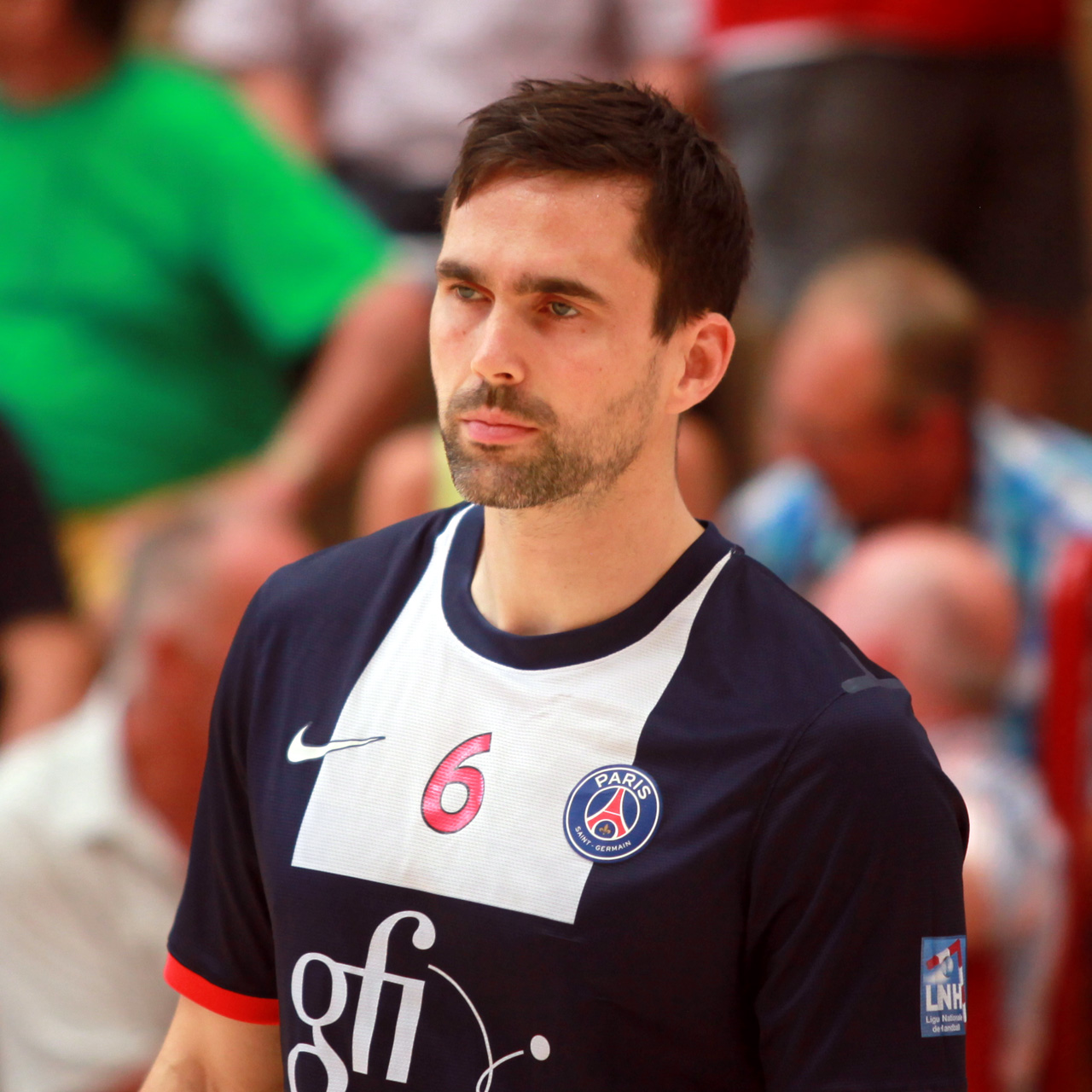 Ásgeir Örn Hallgrímsson, on August 17th, 2012 in Ehingen (Germany), during the Sparkassen Cup (formerly known as Schlecker Cup).